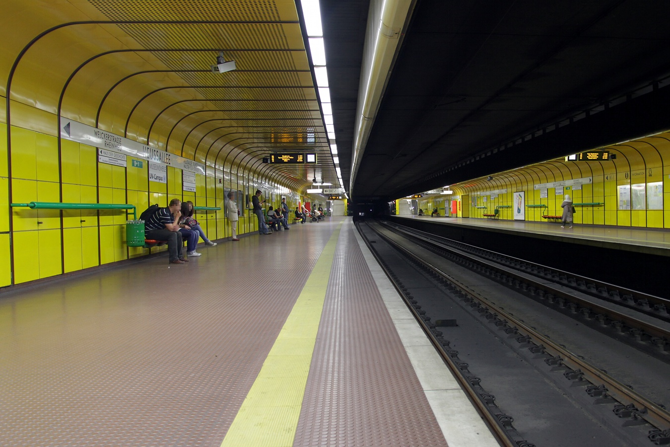 Light rail station Heussallee/Museumsmeile in Bonn